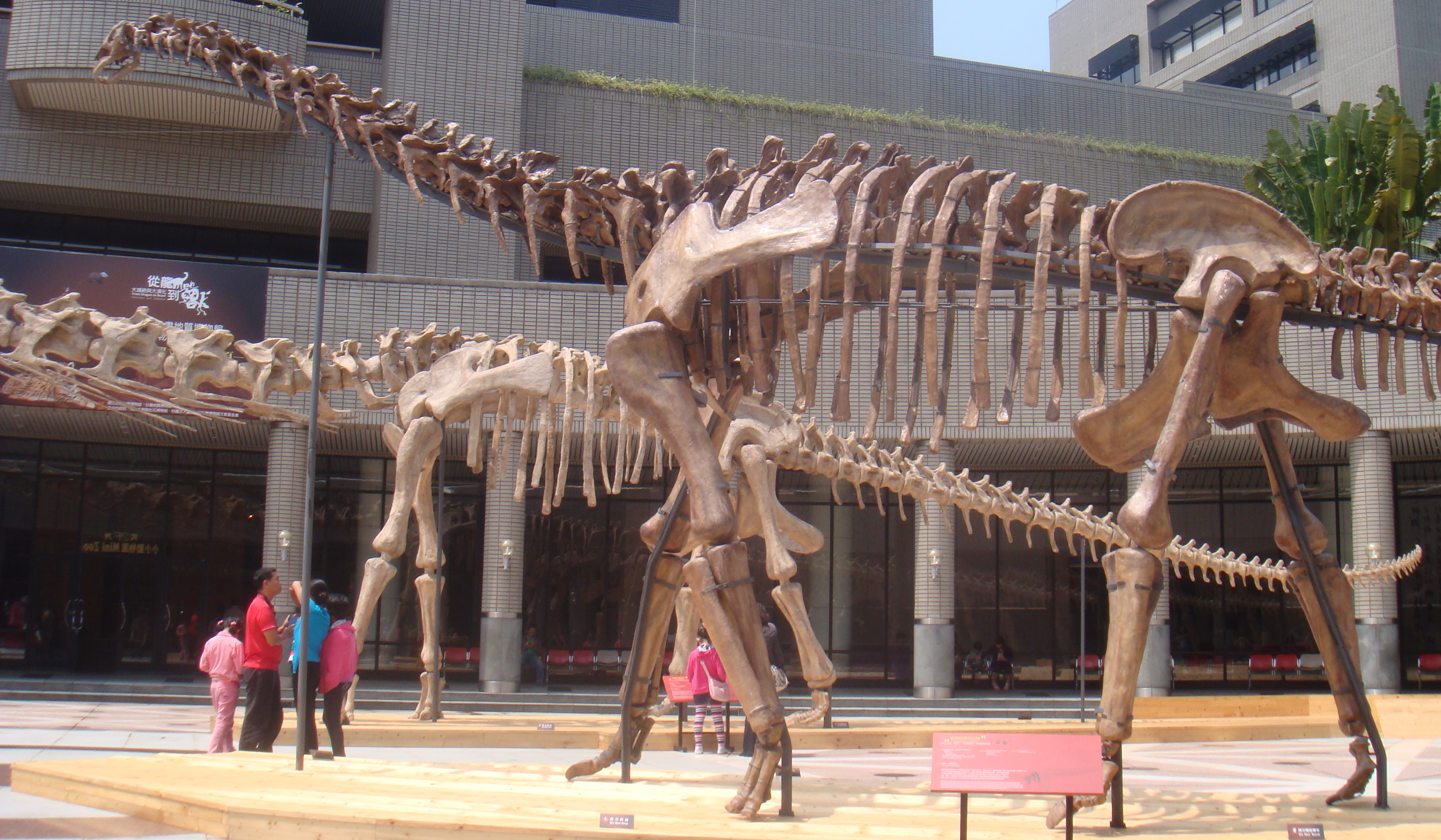 Reconstructed skeletons of Huanghetitan liujiaxiaensis and Daxiatitan binglingi.